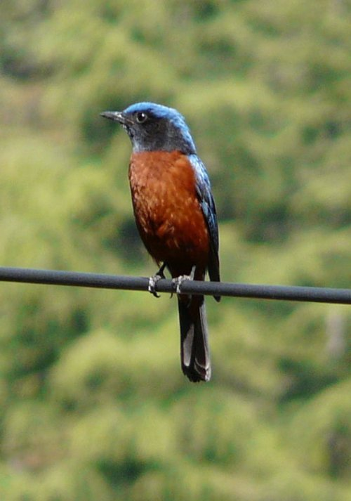 Photo of a male Chestnut Bellied Rock Thrush, in Dhanaulti, Uttarakhand.